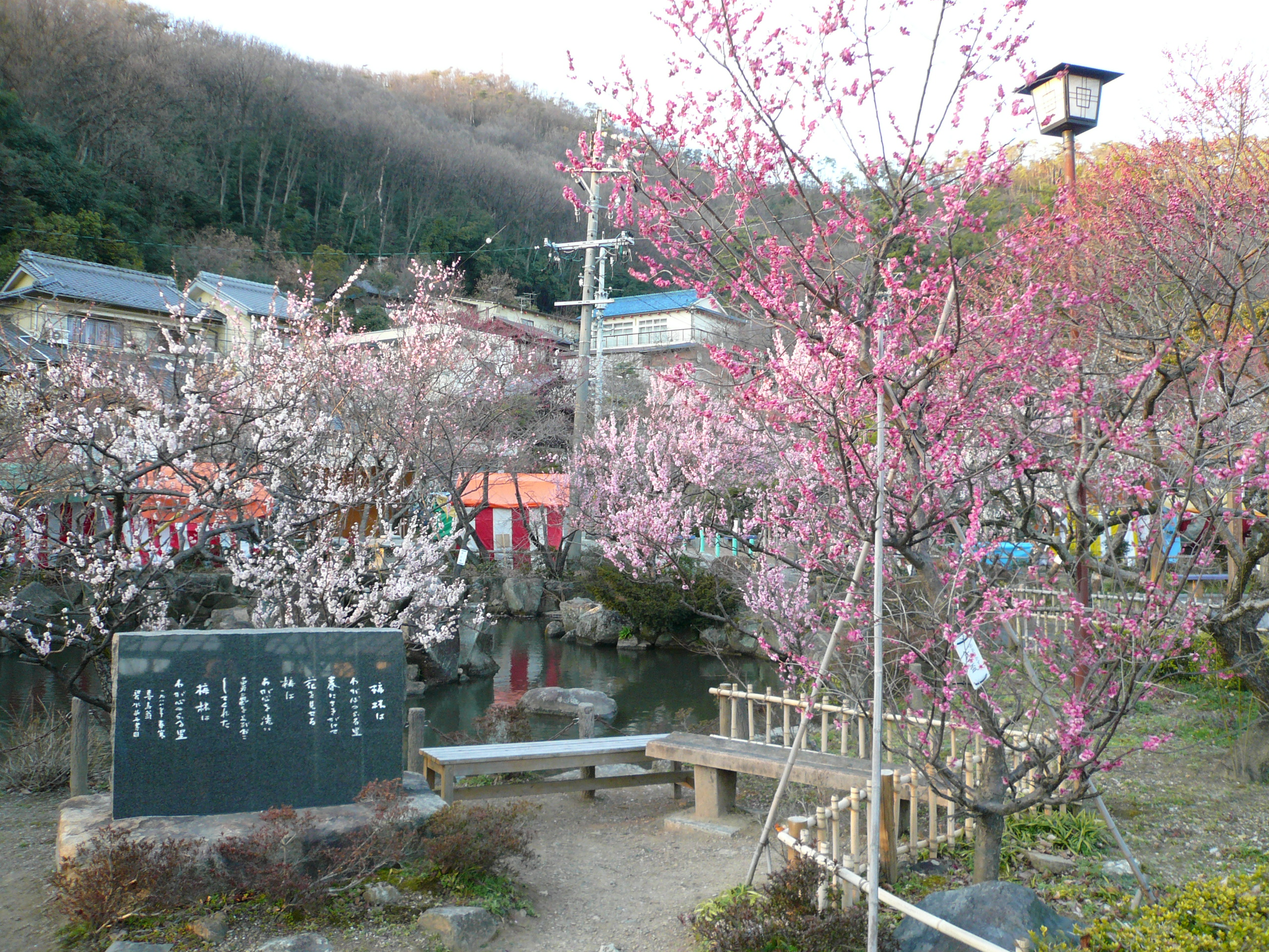 I took this photo in February 2007, at Bairin Park.